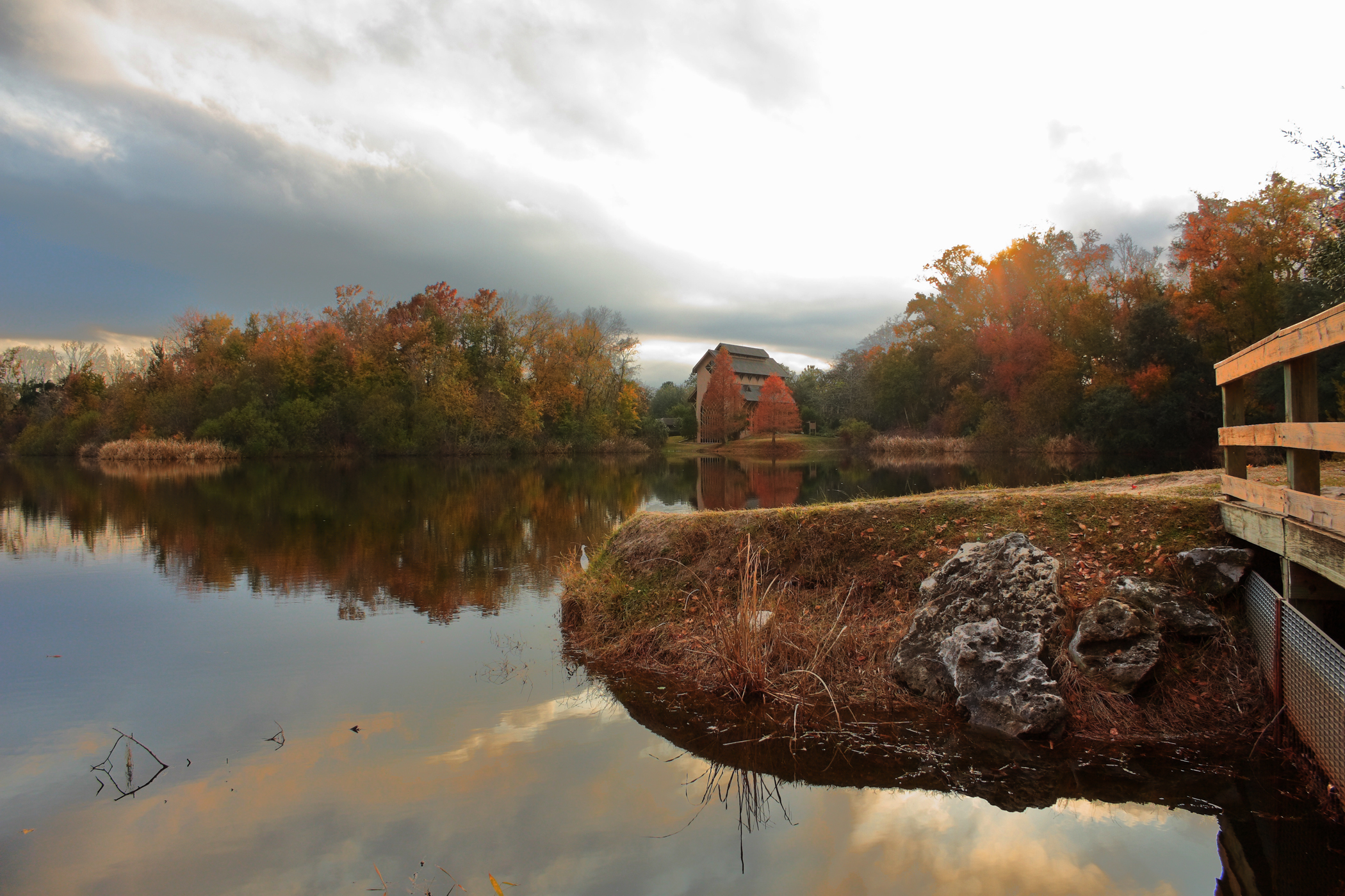 The winter scenery of Lake Alice at the University of Florida. HDR is used.